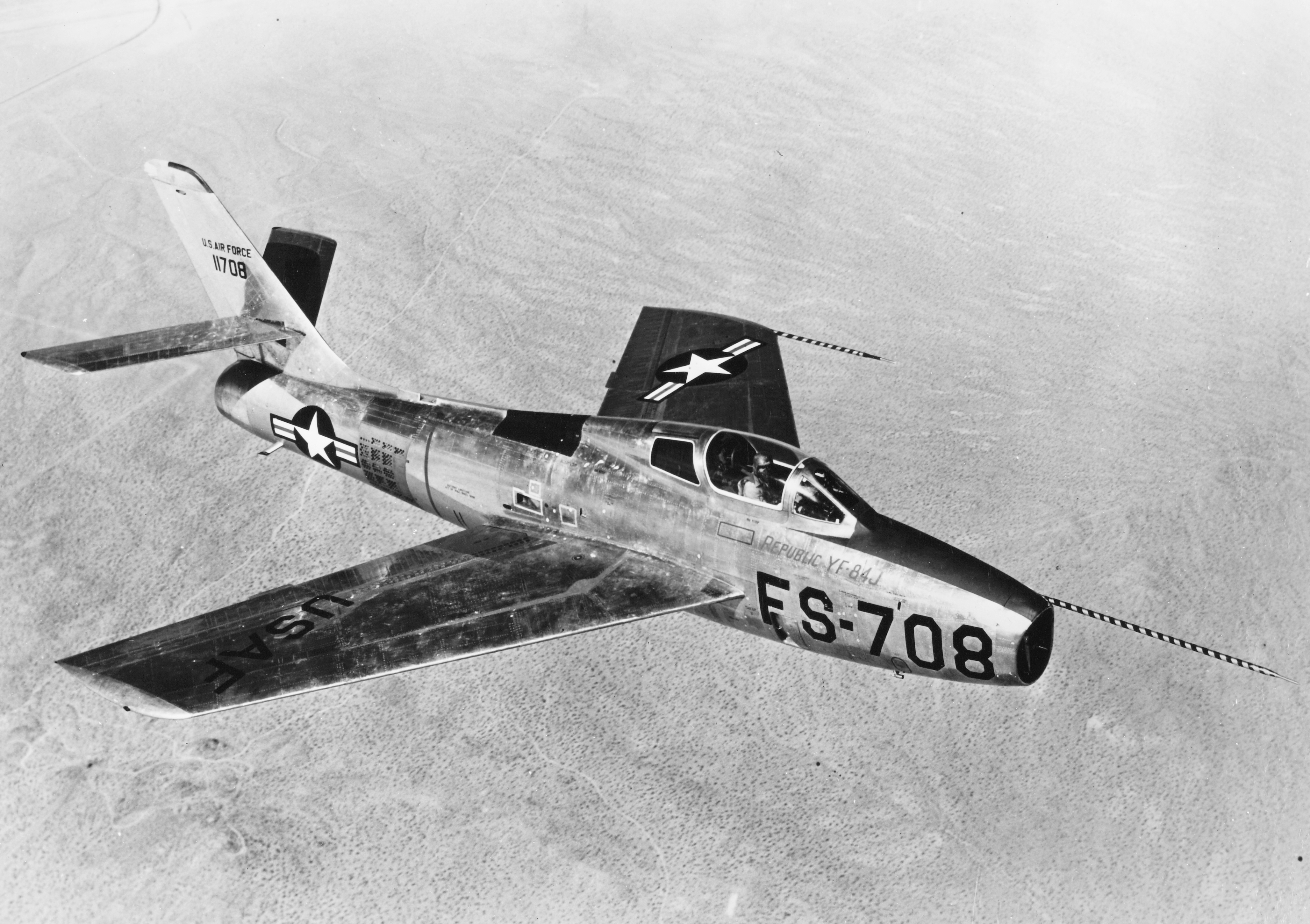 Republic YF-84J Thunderstreak in flight.